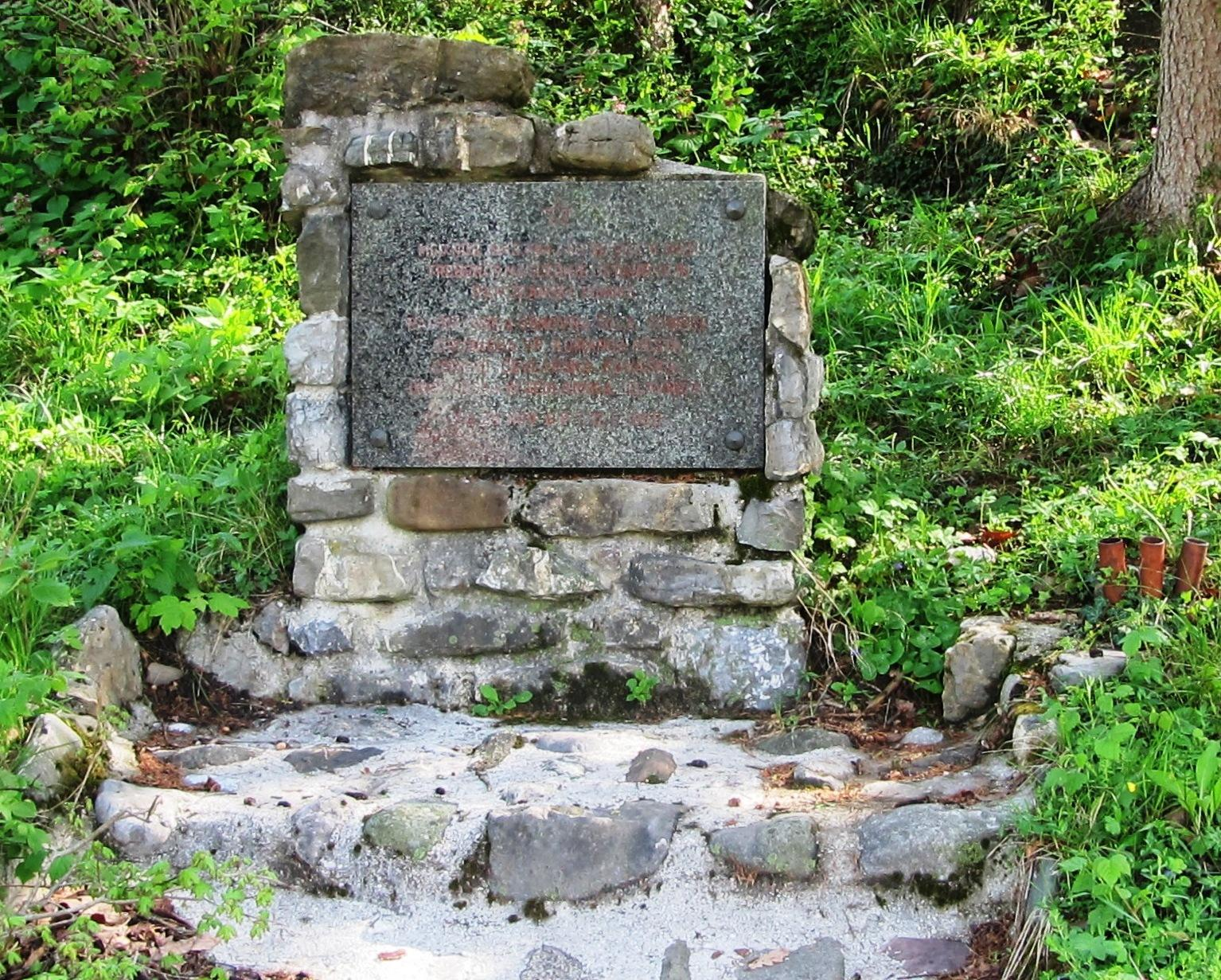 Partisan memorial in Trebenče, Municipality of Cerkno, Slovenia.